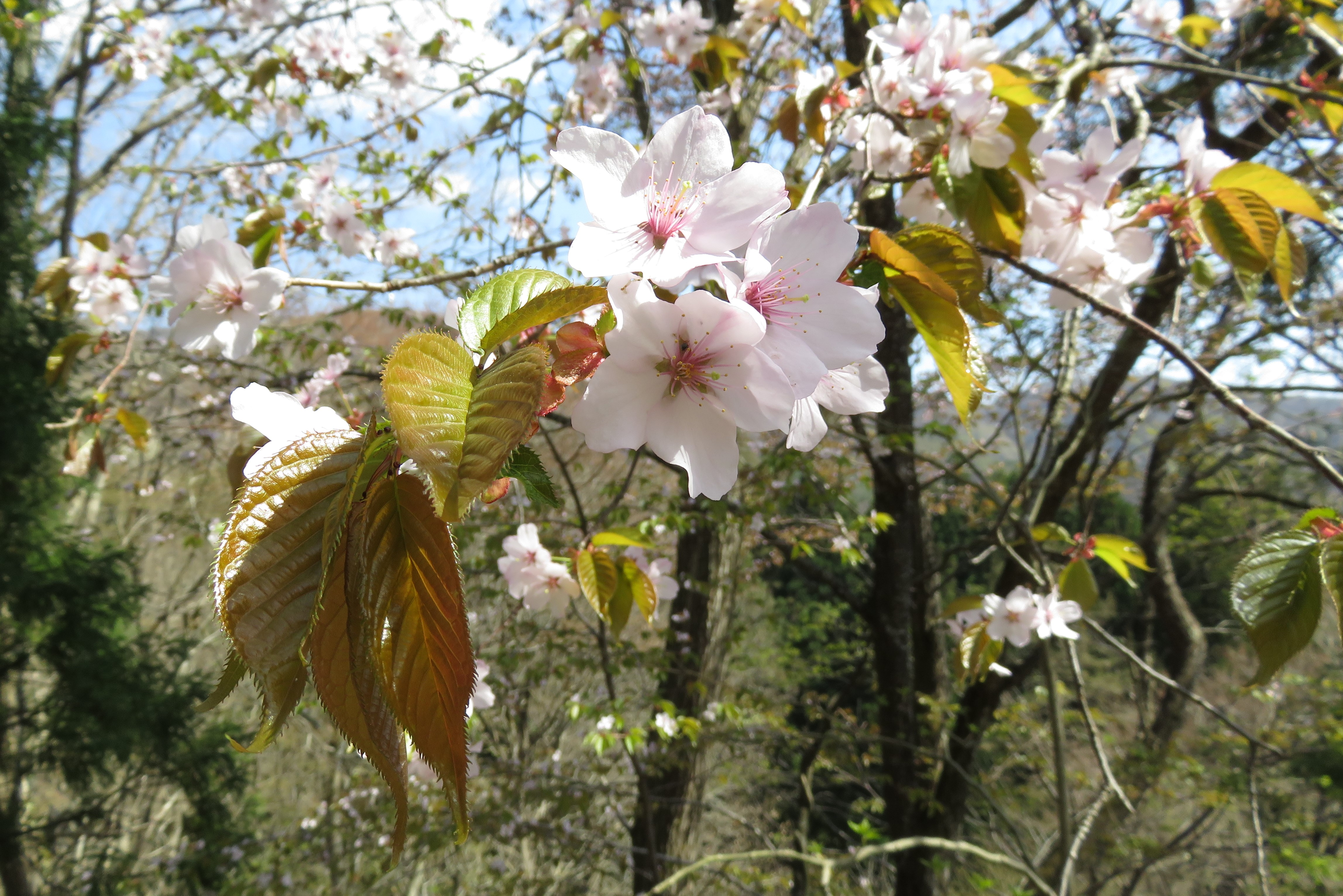 Prunus sargentii, Aizu area, Fukushima pref., Japan